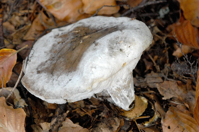 Hypomyces chrysospermus from Commanster, Belgium. The determination of the species shown in this picture has been verified.